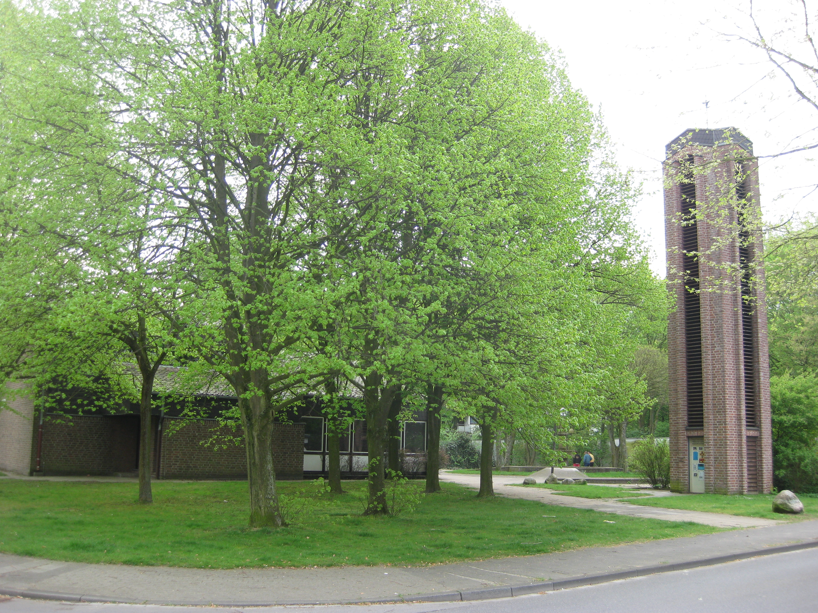 lutheran parish church Jakobuskirche in Gütersloh-Blankenhagen, built in 1972, out of service